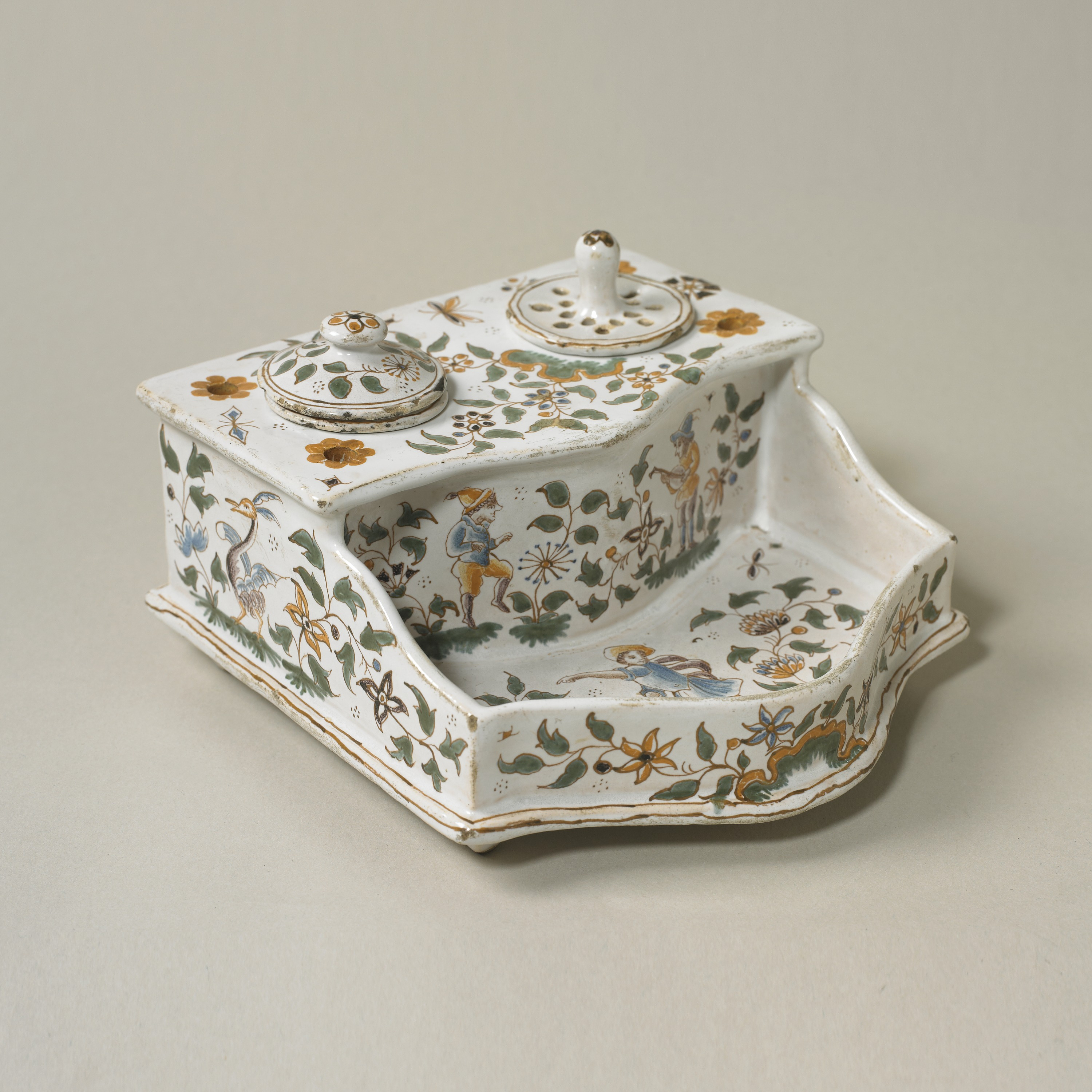 Shaped inkstand (a) with separate inkpot (b) with lid (c), and sander (d); green and ochre decoration of flowers, foliage, and figure. Sampson in the style of 18th-century Moustiers.